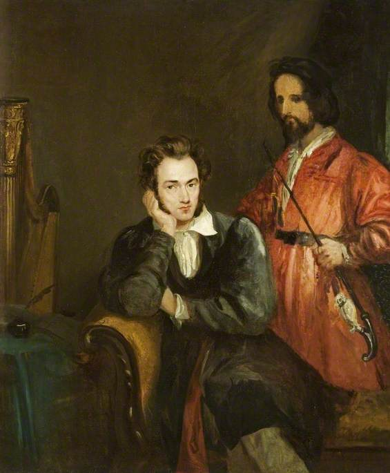 Theodor Richard Edward von Holst (1810— 1844); Gustav von Holst and His Brother, Theodore; Cheltenham Art Gallery & Museum